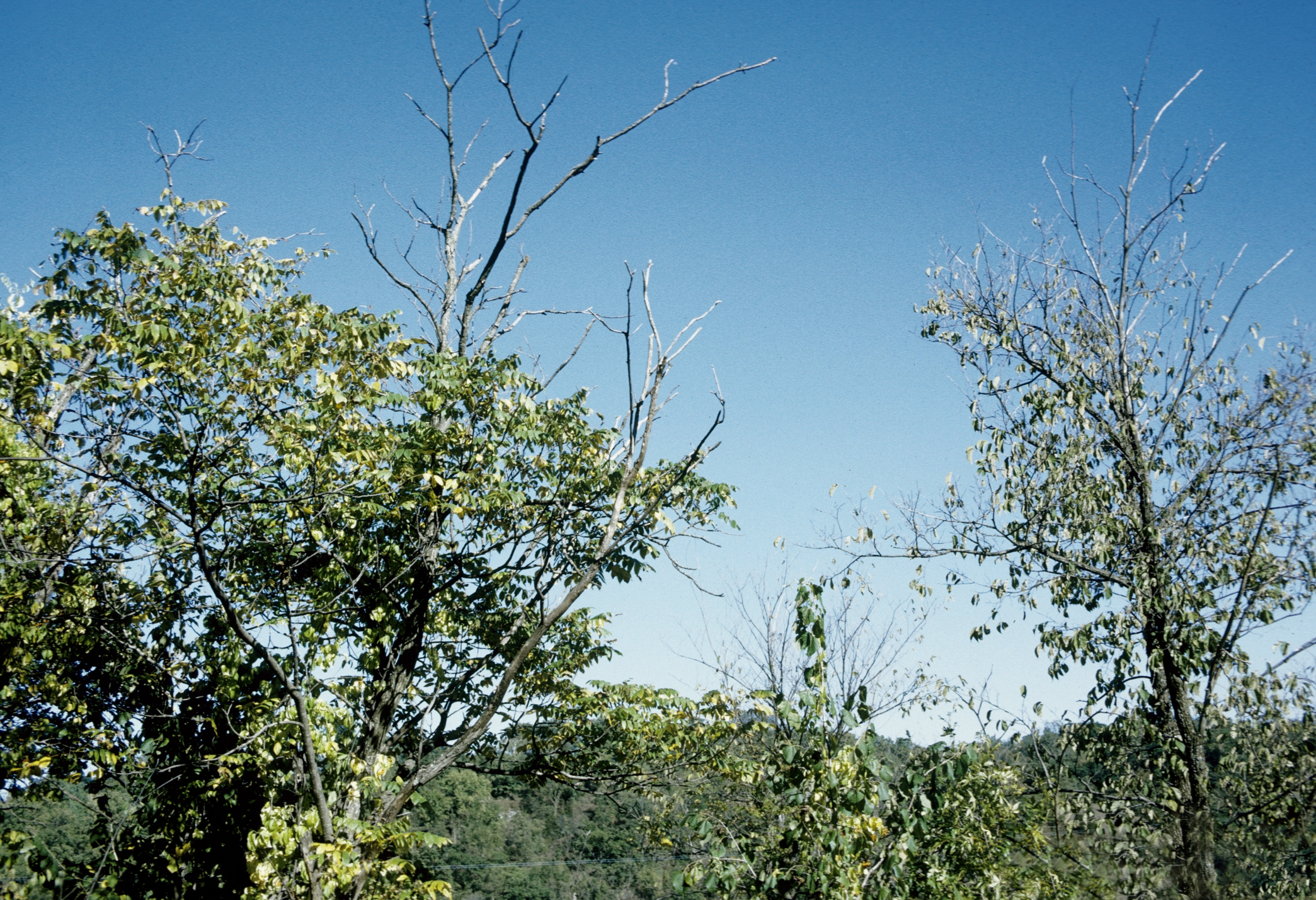 Dead Butternut trees (Juglans cinerea), killed by Sirococcus clavigigenti-juglandacearum.